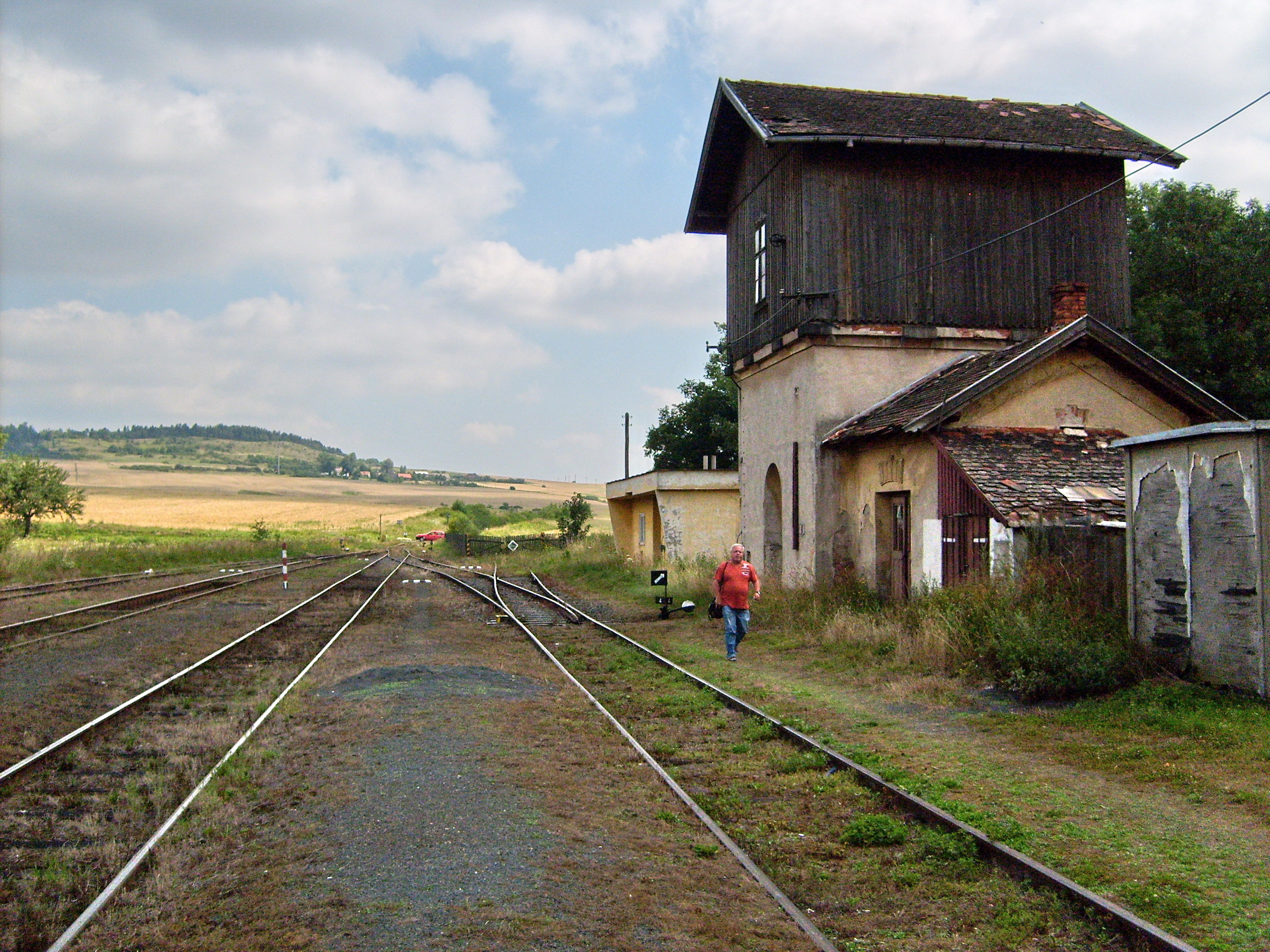 Chyše railway station, Karlovy Vary Region, Czech Republic